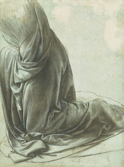 Study of the drapery for the kneeling angel of the Virgin with the rocks (version of London)